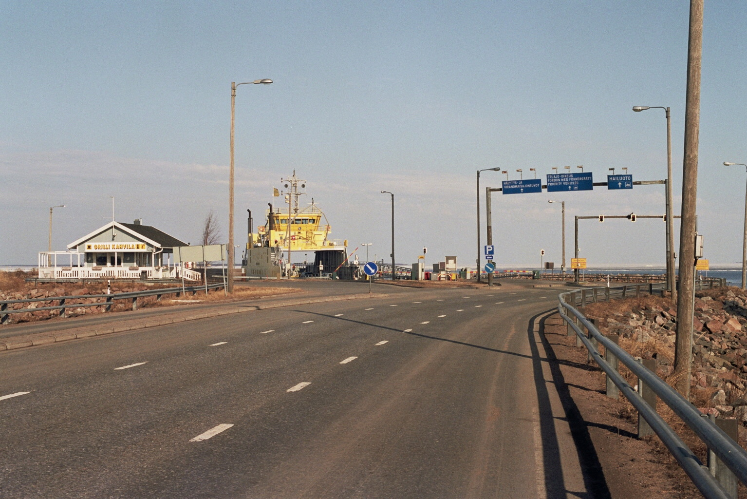 The Riutunkari ferry harbour on the regional road 816 in the Oulunsalo municipality of Finland.